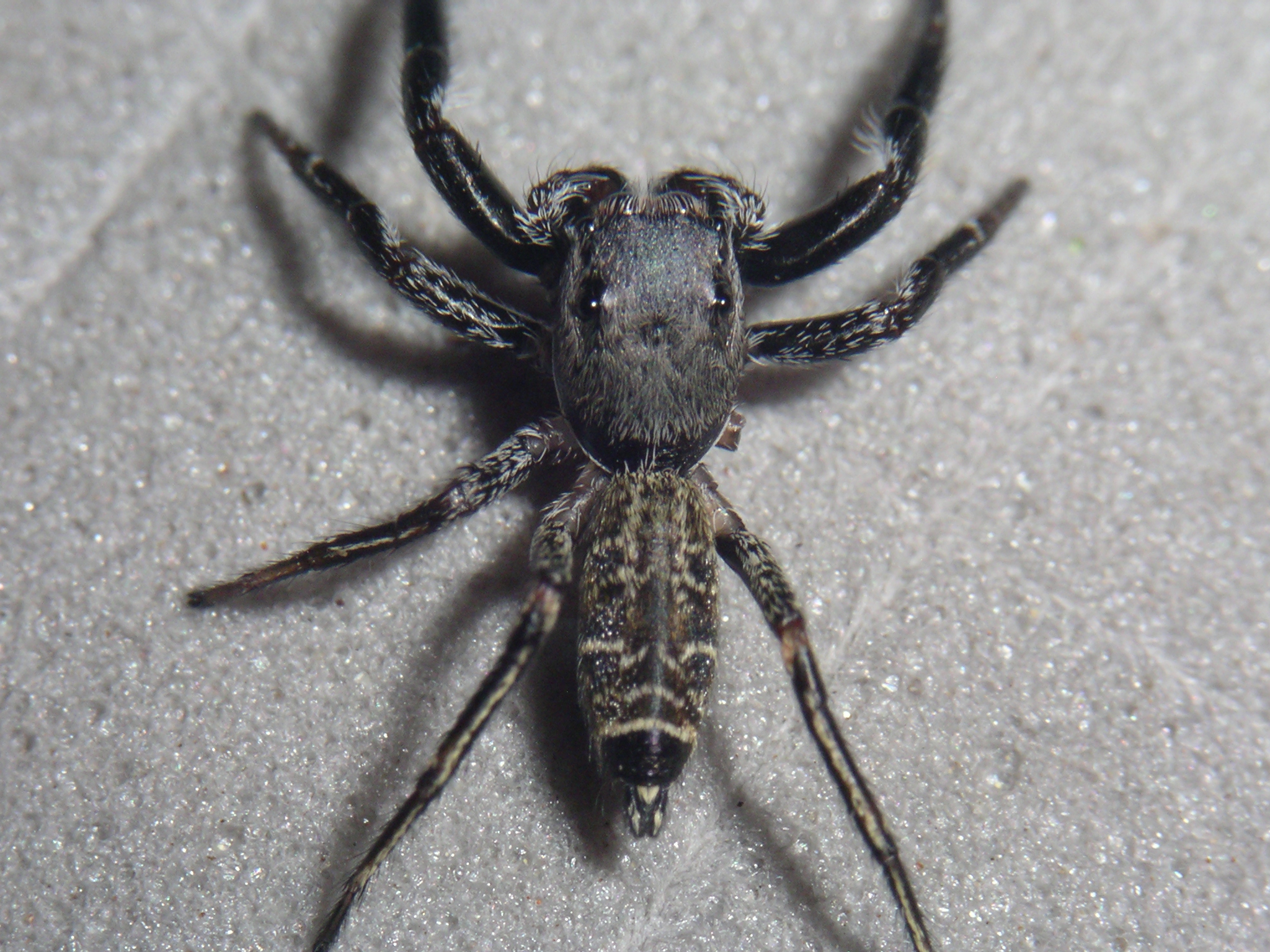 Breda akypueruna male (ECU11-5750) — ECUADOR: ORELLANA: Yasuní Res.Stn.area, forest edge near Station 0.675 °S 76.397 °W